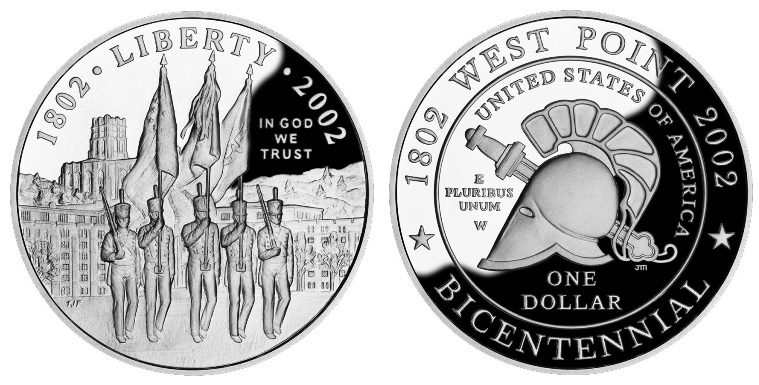 2002 West Point Proof Dollar